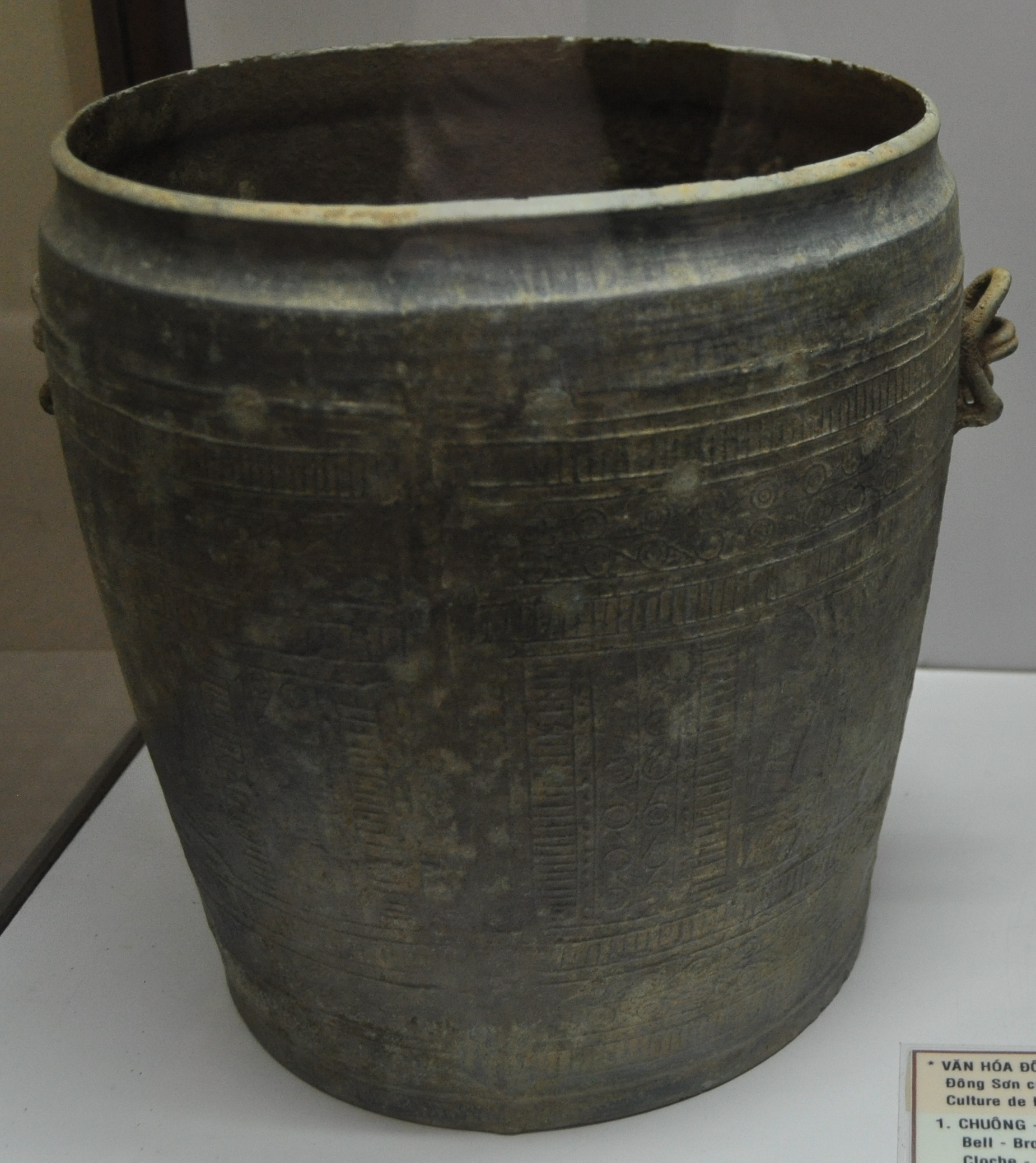 Urn(Bronze, Thanh Hóa Province), Dong Son culture, Room2 Hùng King Period, Collections of the Museum of Vietnamese History